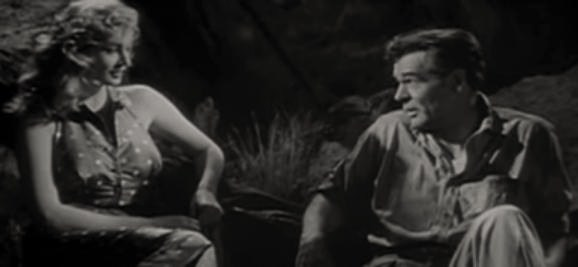 Anita Ekberg & Robert Ryan in Back from Eternity - trailer (cropped screenshot)